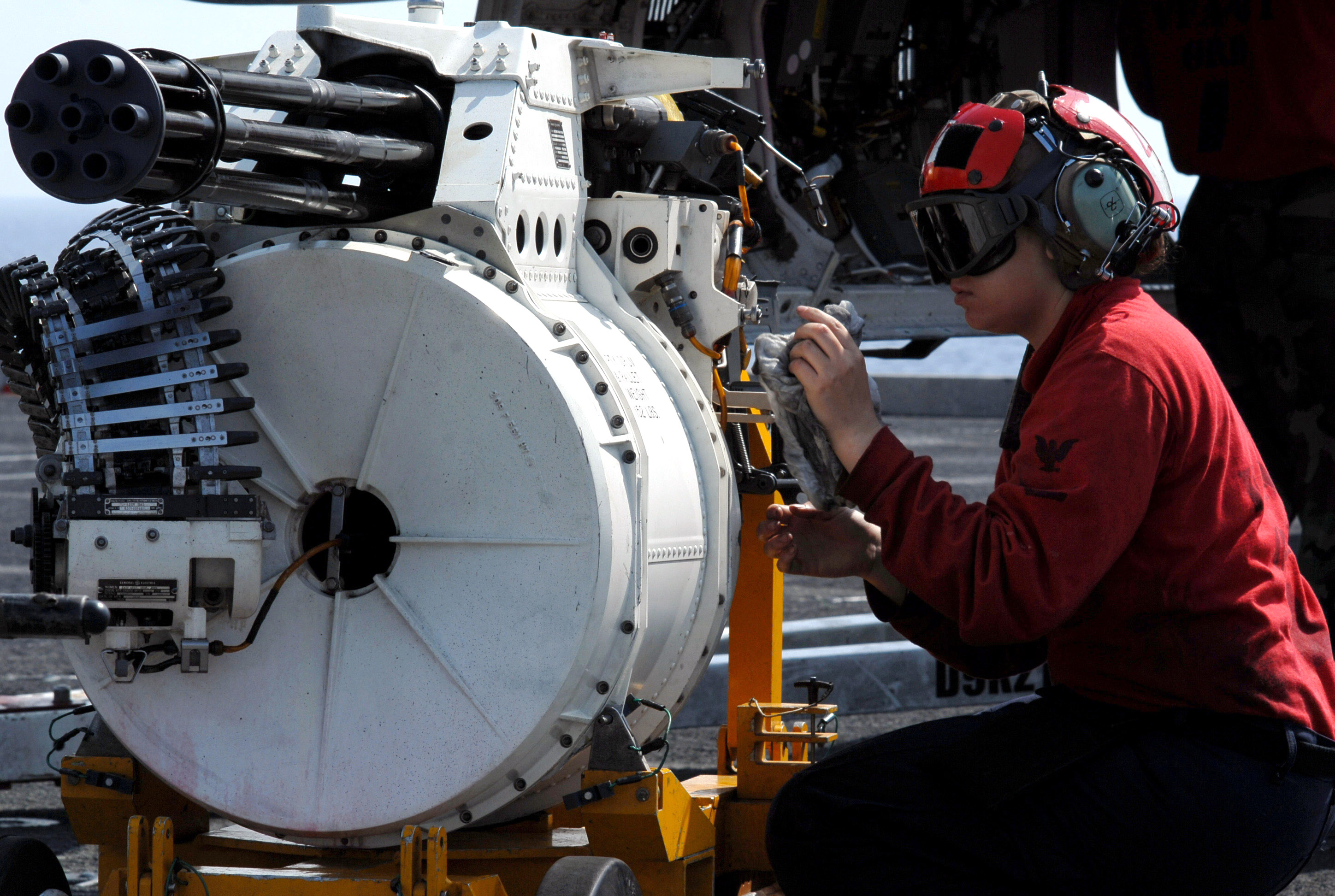 INDIAN OCEAN (May 8, 2007) - Aviation Ordnanceman 2nd Class Tina Greer maintains an M61A1 20mm rotary canon on the flight deck of nuclear-powered aircraft carrier USS Nimitz (CVN 68). Nimitz Carrier Strike Group and embarked Carrier Air Wing (CVW) 11 are deployed in the 5th Fleet area of operations conducting Maritime Security Operations (MSO) and supporting the global war on terrorism. U.S. Navy photo by Mass Communication Specialist Seaman Joseph Pol Sebastian Gocong (RELEASED)